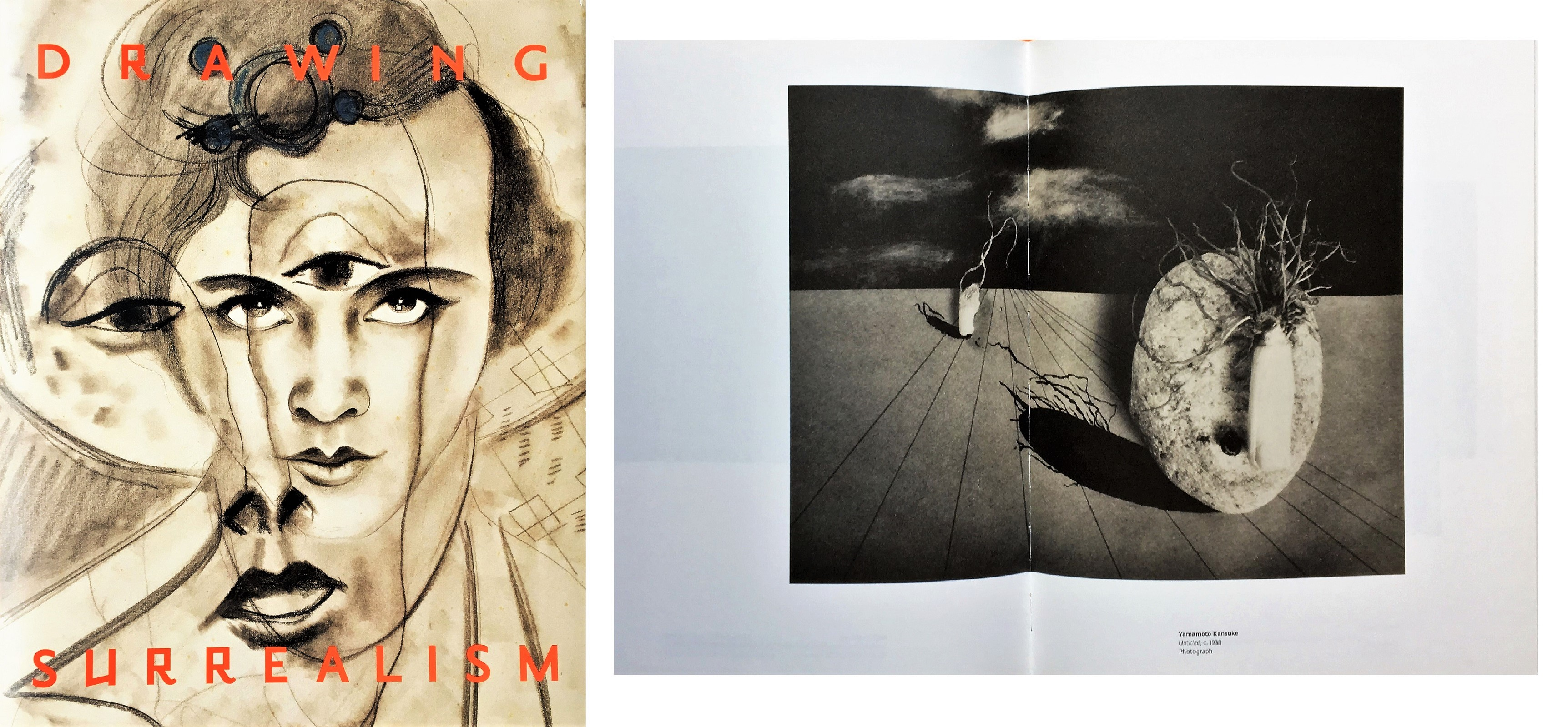 DRAWING SURREALISM exhibition 2012 at the Los Angeles County Museum of Art (LACMA), U.S.A, included Kansuke Yamamoto works, text by Leslie Jone. （右）山本悍右作品 1938年